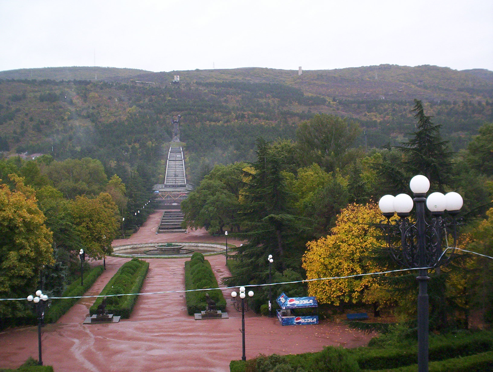 D.Papuashvili (self made picture)